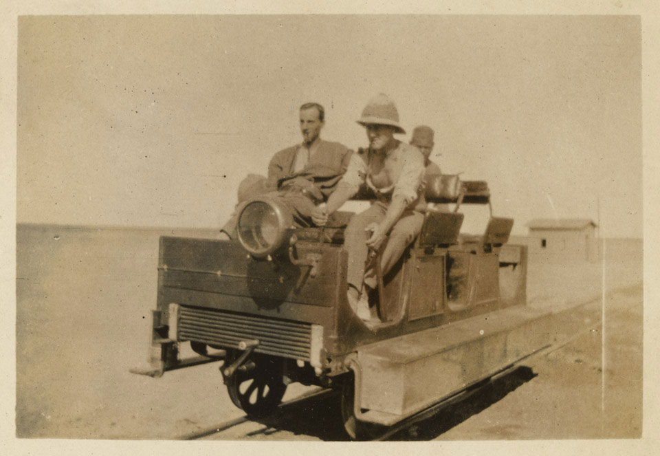 Motor inspection car - on desert railway outside No 2 Block House - Libyan Desert, Oct 1916